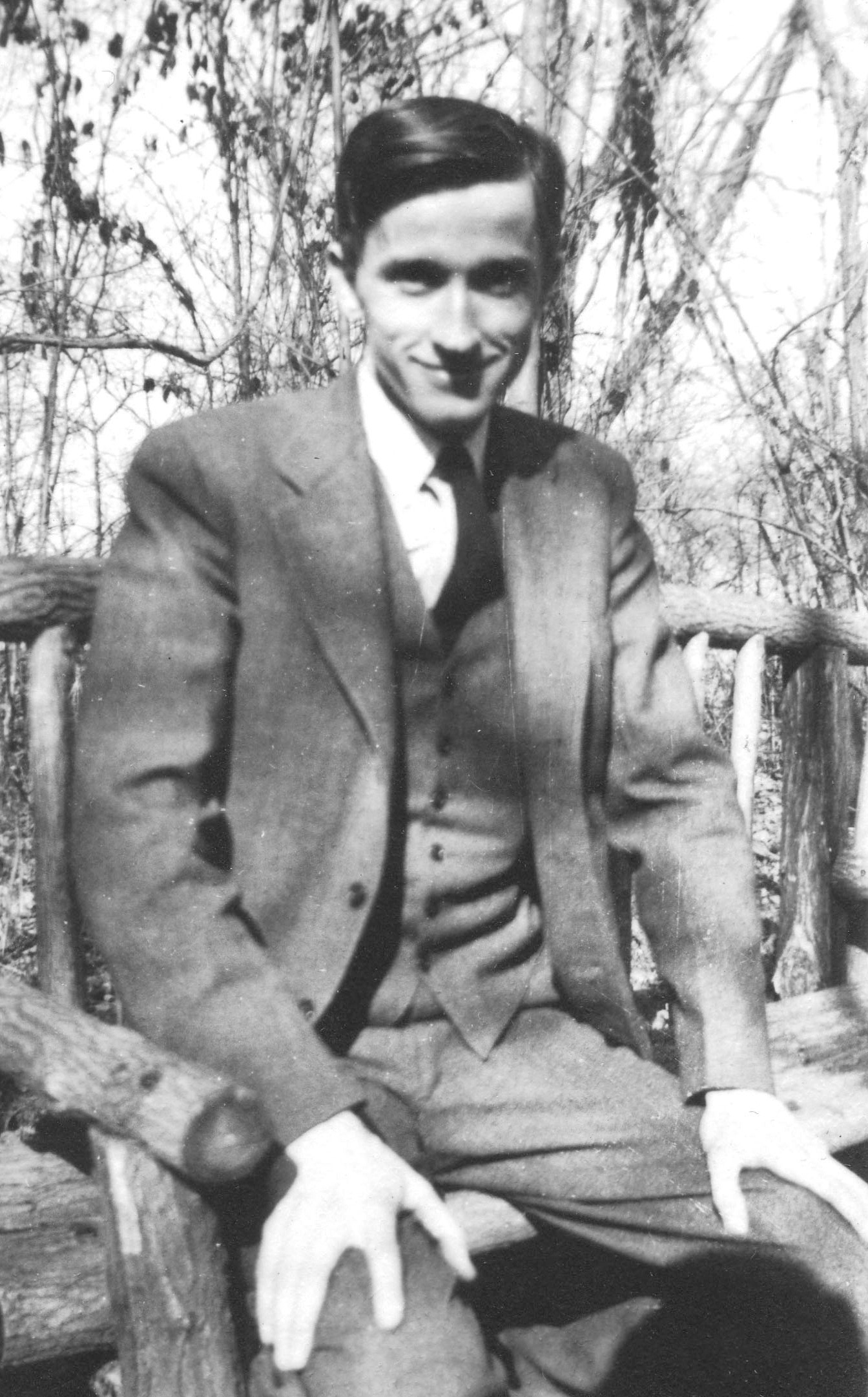 Photograph of Nobel laureate Max Delbruck